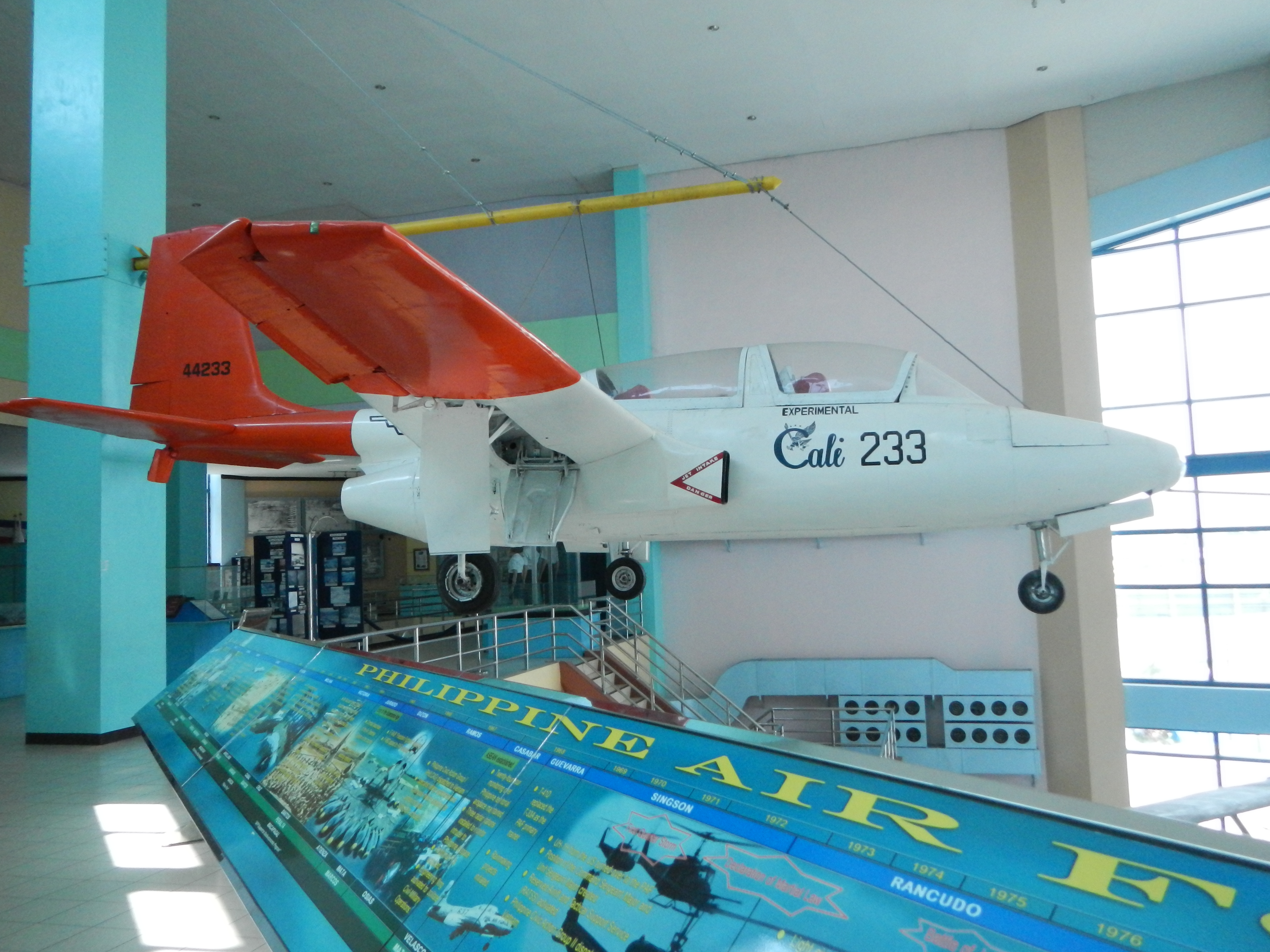 Upload Wizard photos of - Villamor Air Base [1] named after Jesús A. Villamor [2] Philippine Air Force [3] locted at Parañaque City and Pasay City, Metro Manila - beside the - Philippine Air Force Museum or Villamor Air Base Aircraft PAF Museum or Aerospace Museum Villamor Air Base Pasay City [4] --- List of former aircraft of the Philippine Air Force [5].